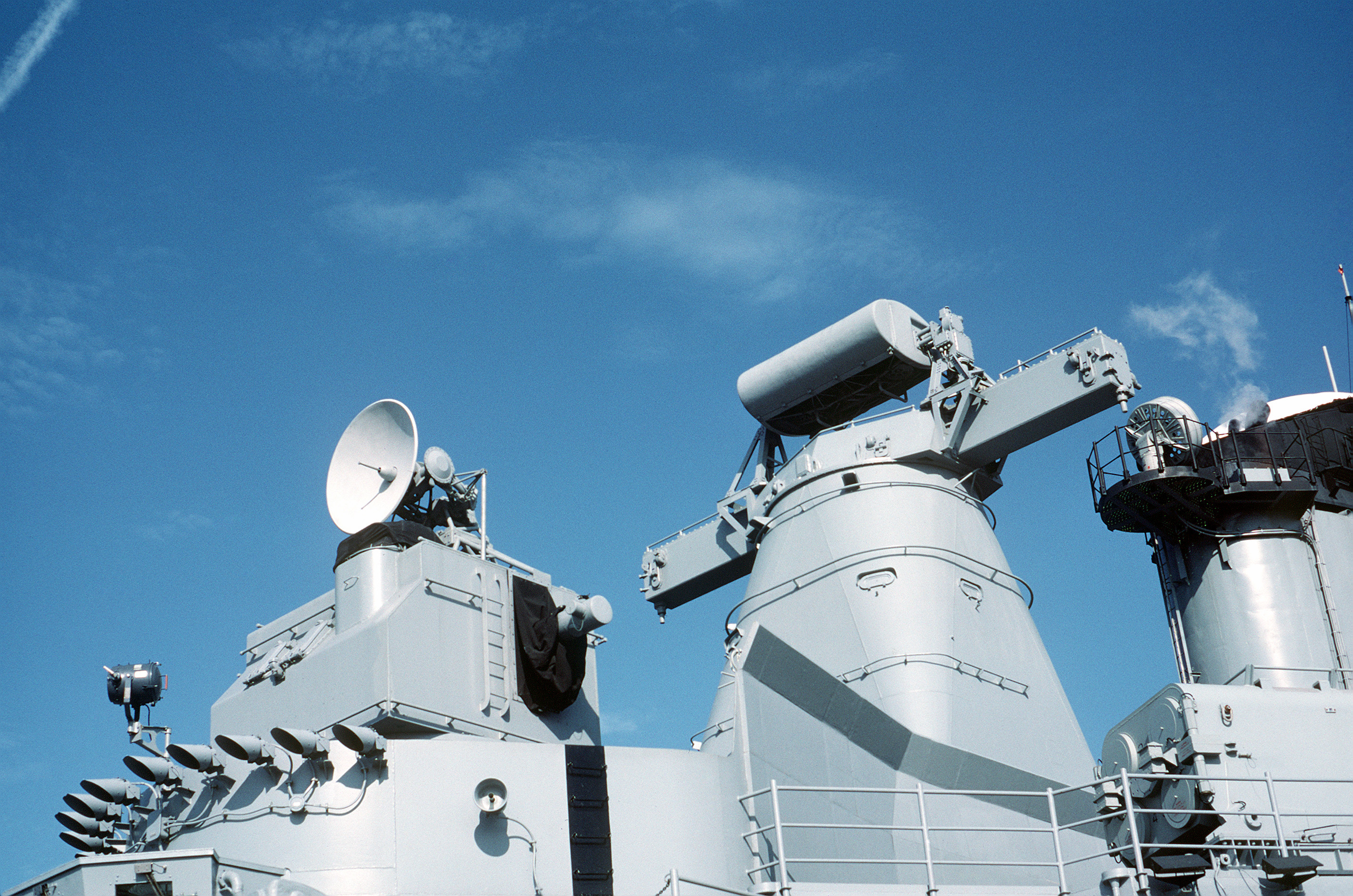 A view of the Mark 37 gunfire control system with Mark 25 radar, left, the Mark 38 gunfire director with Mark 13 radar, and a QE-8L satellite communications antenna, right, aboard the battleship USS IOWA (BB 61).Location: NAVAL AIR STATION, NORFOLK, VIRGINIA (VA) UNITED STATES OF AMERICA (USA)